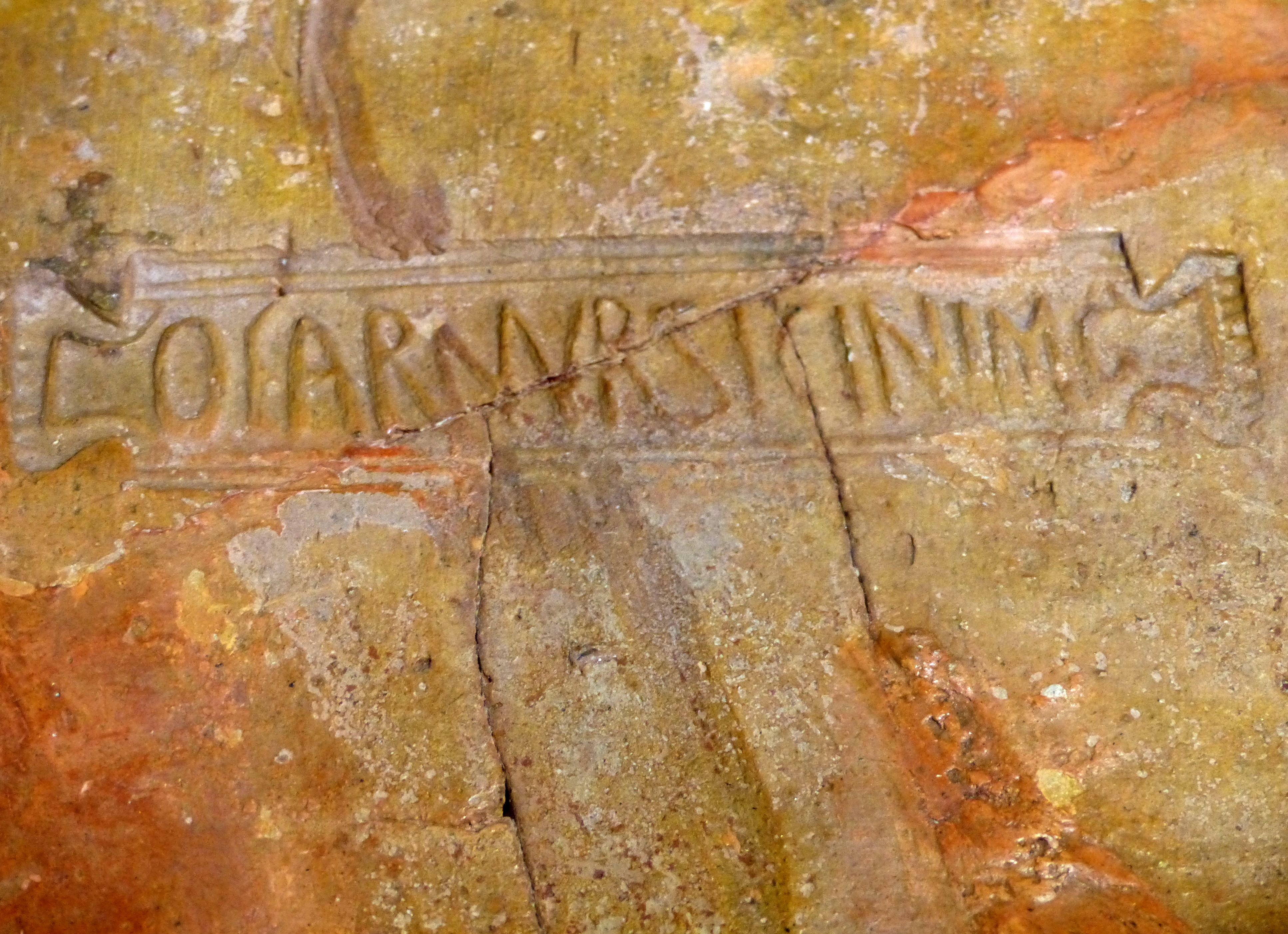 Asparn an der Zaya ( Lower Austria ). Museum of Prehistory: Ancient Roman brick stamp showing the name of the ancient Roman commander URSICINUS ( 370 - 490 AD ) from the residence of a Germanic prince in Oberleiserberg ( Korneuburg district )